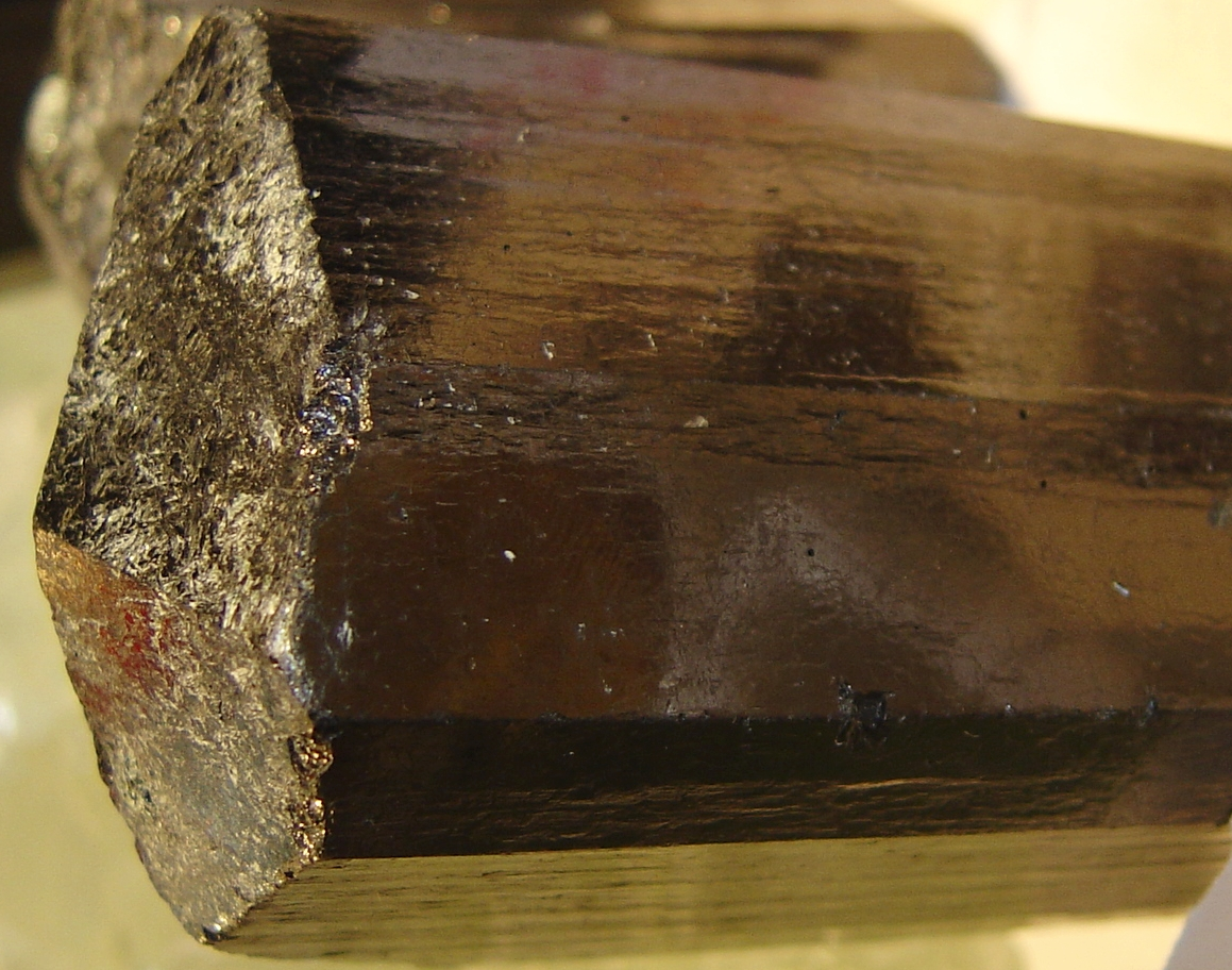 Tourmaline I took this photo in october 2005